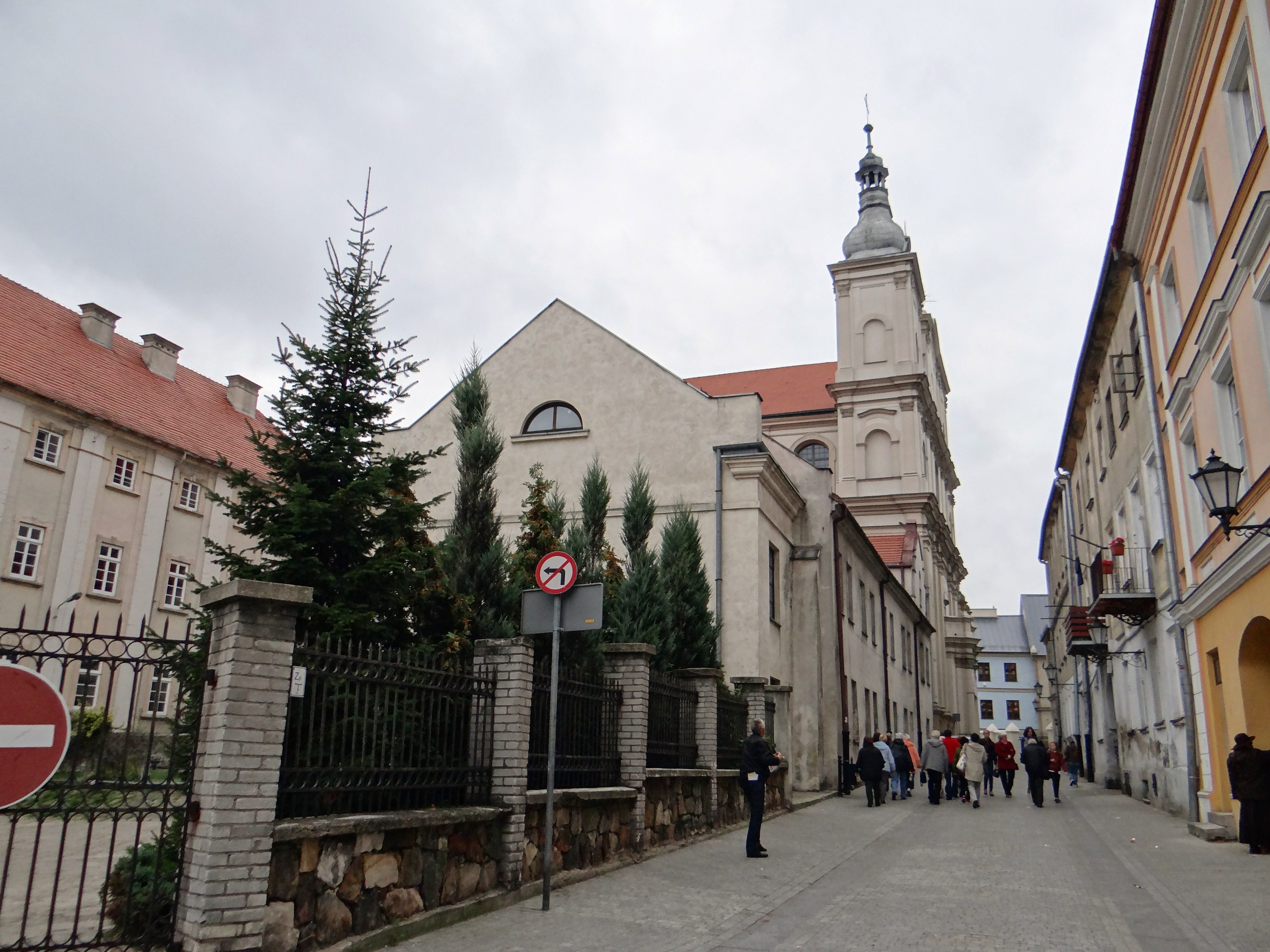 Jesuit Church in Piotrków Trybunalski